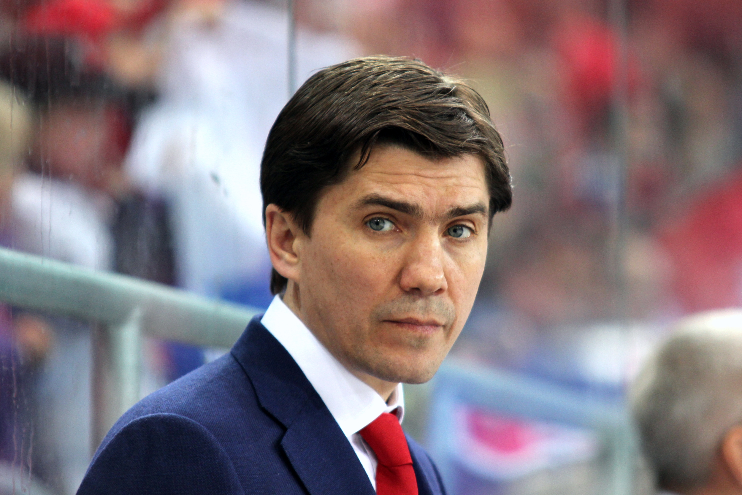 Igor Nikitin (R Assistant Coach).